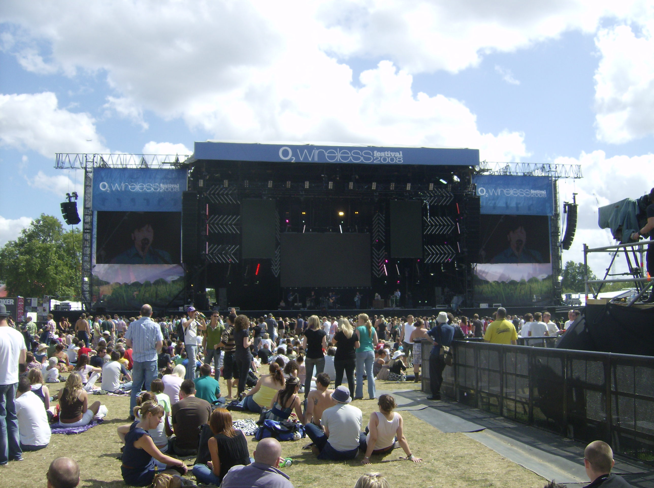 The main stage of the 2008 O2 Wireless Festival in Hyde Park, London. Playing are the band Cornershop.